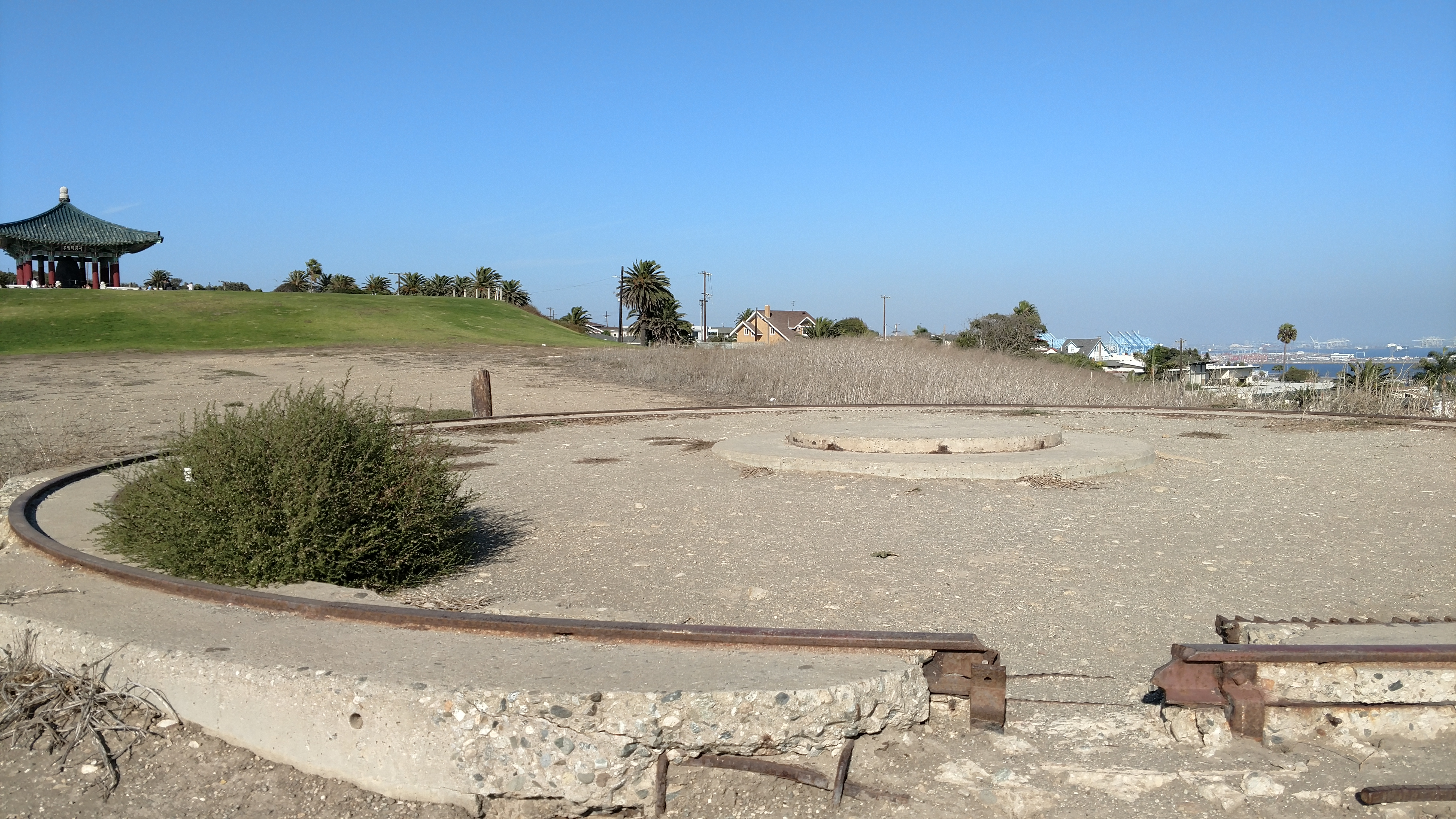 A gun battery emplacement, just west of Battery 241 (beneath the Korean Bell of Friendship, seen in upper left), is still recognizable more than 60 years after its removal at the former Fort MacArthur military base in San Pedro, CA. The fort's Upper Reservation is now managed by the City of Los Angeles Department of Recreation and Parks as Angels Gate Park.